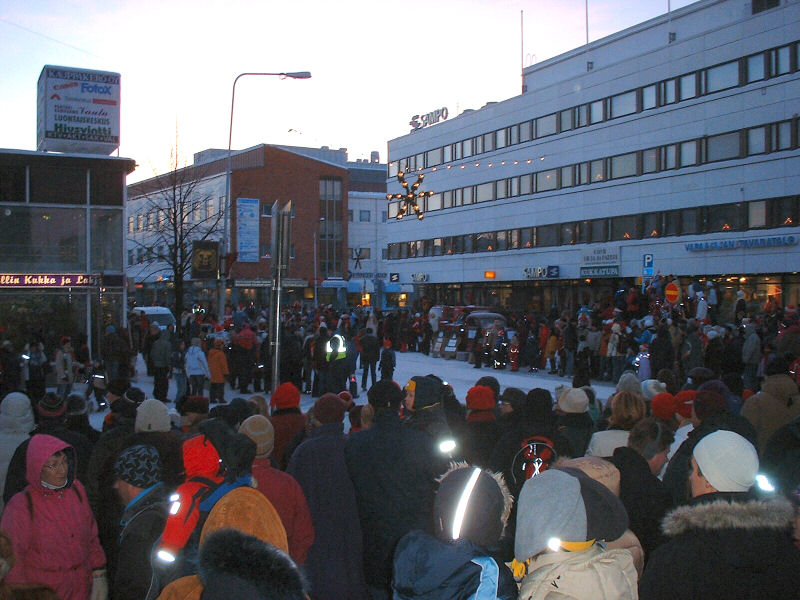 Christmas celebrations in Rovaniemi, Finland.